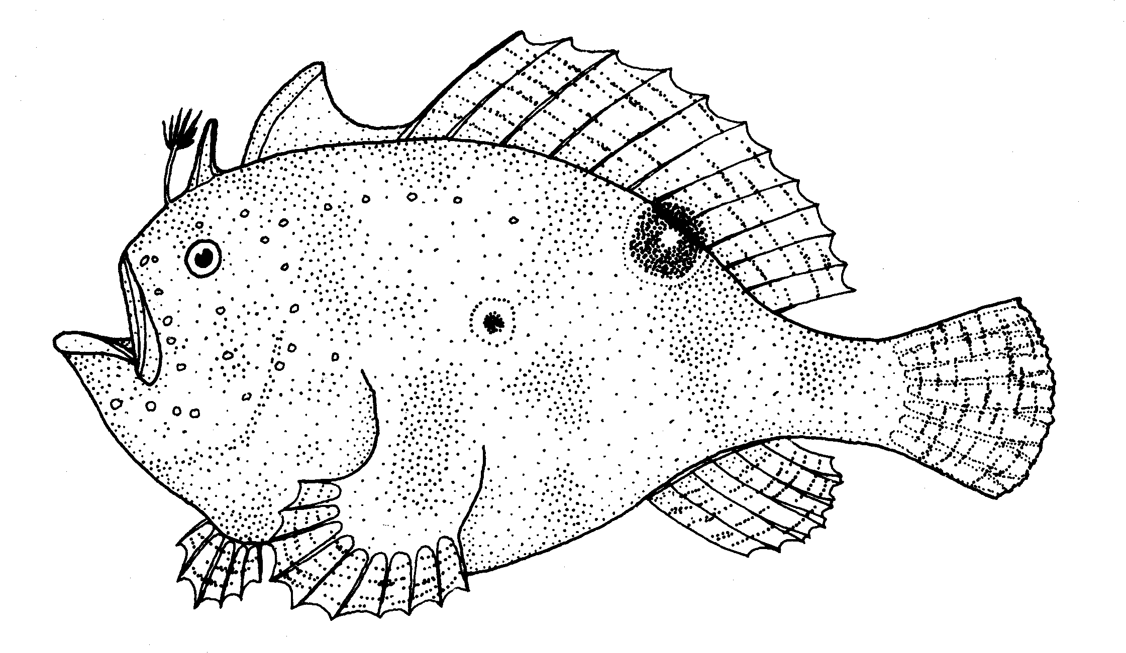 Antennarius nummifer (Spotfin frogfish)